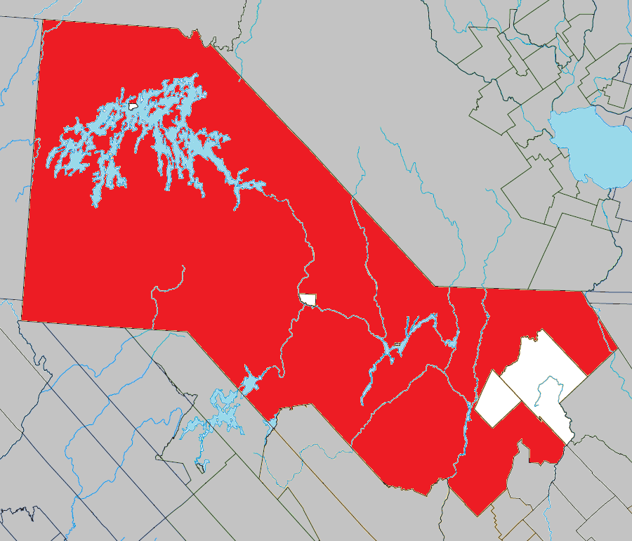 Location of La Tuque within La Tuque (urban agglomeration), Quebec